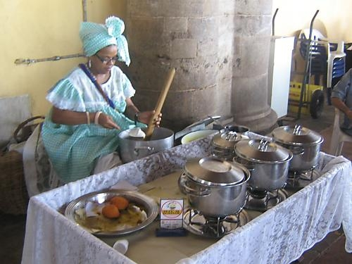 woman cooking traditional dishes in a street kitchen in Salvador da Bahia, Brazil